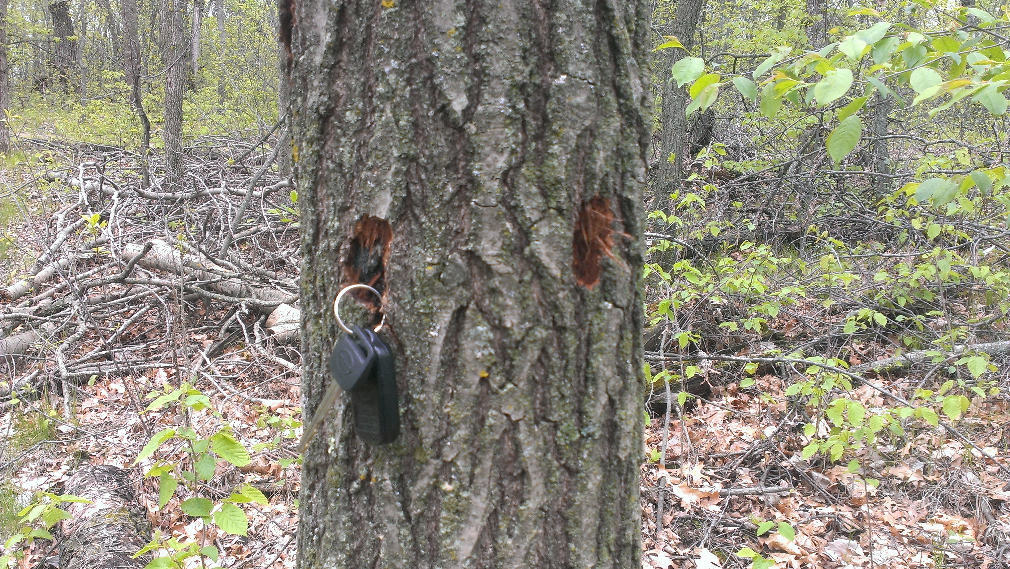 Squirrels and other critters are attracted to fruity odor of spore mats and often will pry out bark covering the spore mats to get at the food source.